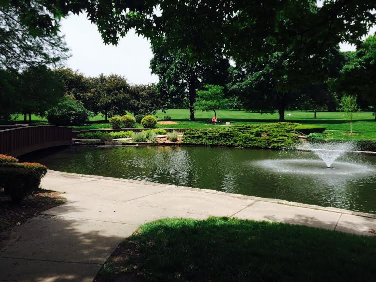 View of the "duck pond" and fountains in Loose Park